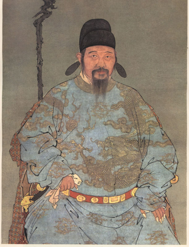 Li Zhen, strategist of the Ming Dynasty.